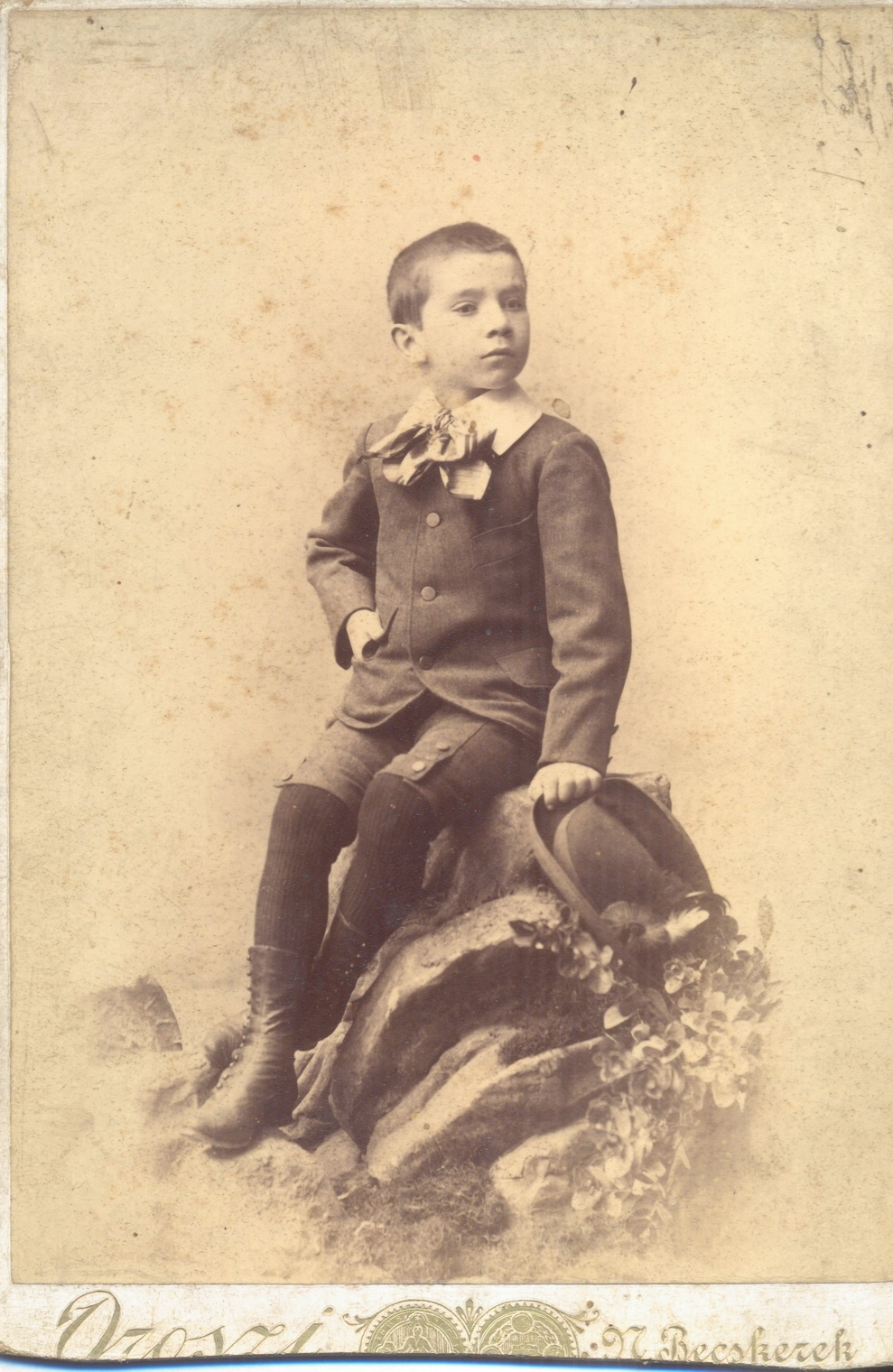 Portrait of Todor Manojlović as a boy (Inventory number: NMZ ZPU-725 (Art department, Collection of applied arts)) Српски (ћирилица): Портрет Тодора Манојловића као дечака (Инвентарни број: НМЗ ЗПУ-725 (Уметничко одељење, Збирка примењене уметности))